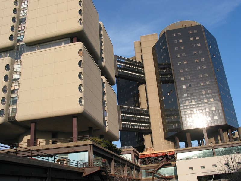 photo by Mark Kim. As a current student here, he informs me that the classrooms are round and have purple and green carpet on the walls. photos, Mark, we need more photos.